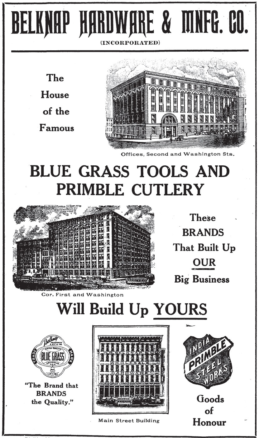 An advertisement for Belknap Hardware and Manufacturing Company of Louisville, Kentucky